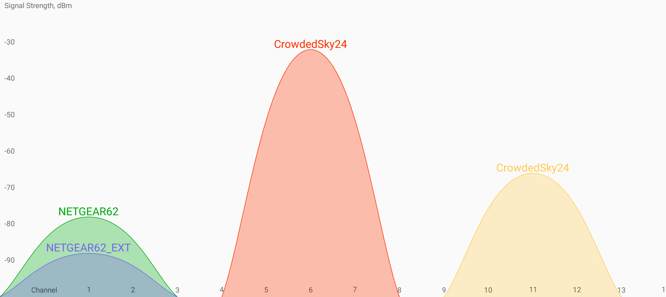 An image showing co-channel wireless interference between two networks.